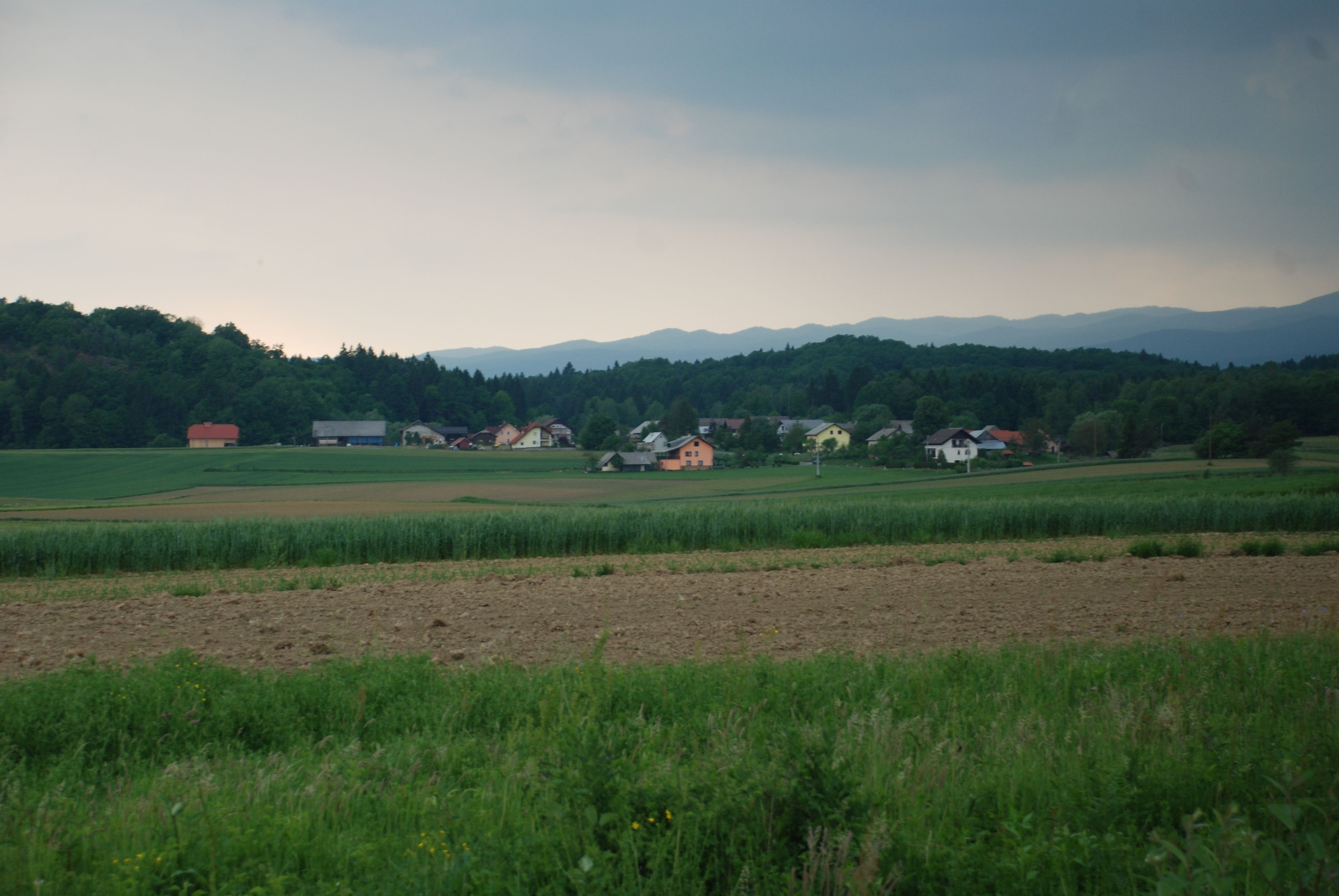 Grm pri Podzemlju, Metlika. Picture taken from the Memorial (aircraft).